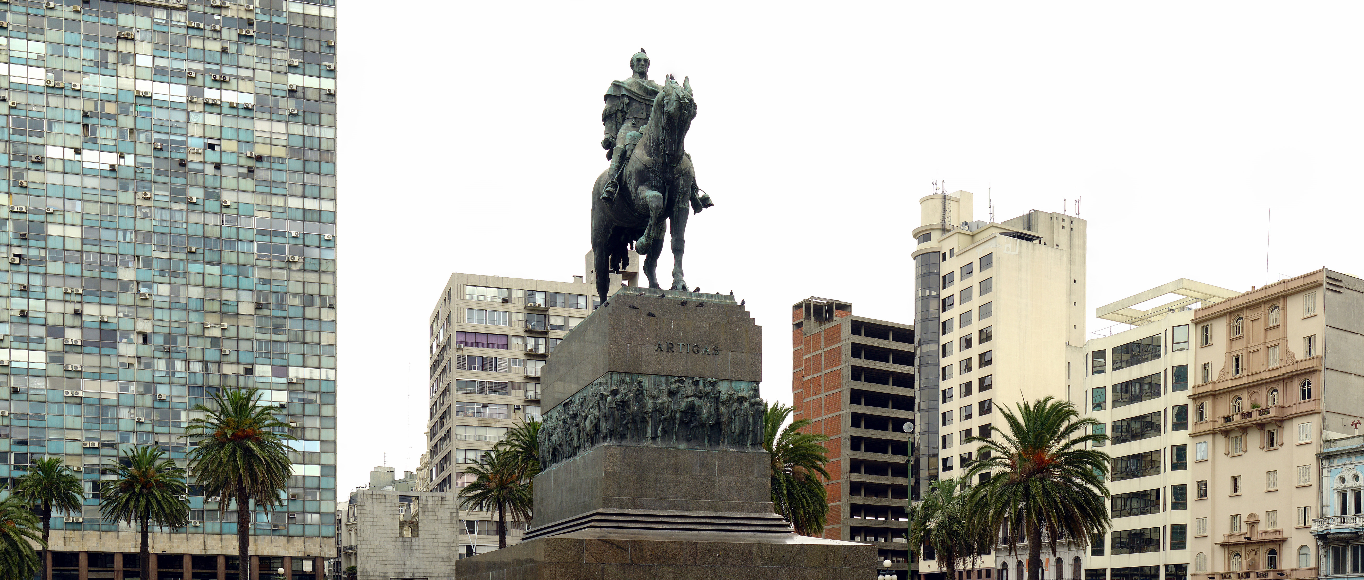 Please, have this description accessible to all by translating it in different languages.